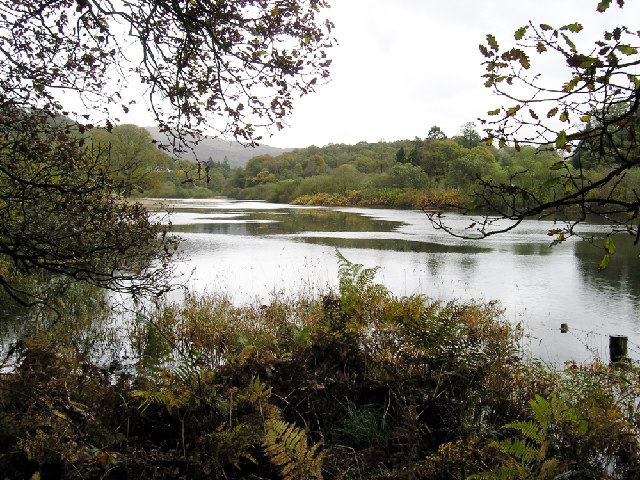 River Brathay near Clappersgate. The Brathay in full flood after heavy rain.